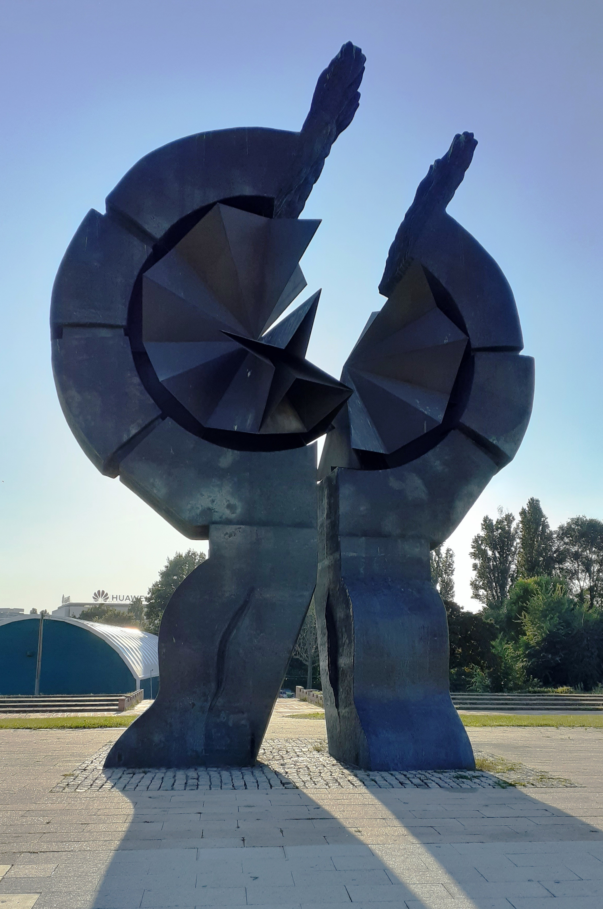 Monument Staro Sajmište - remembrance of the victims of the genocide 1941-1944, on the left bank of the Sava, in the City Municipality of New Belgrade, in Belgrade